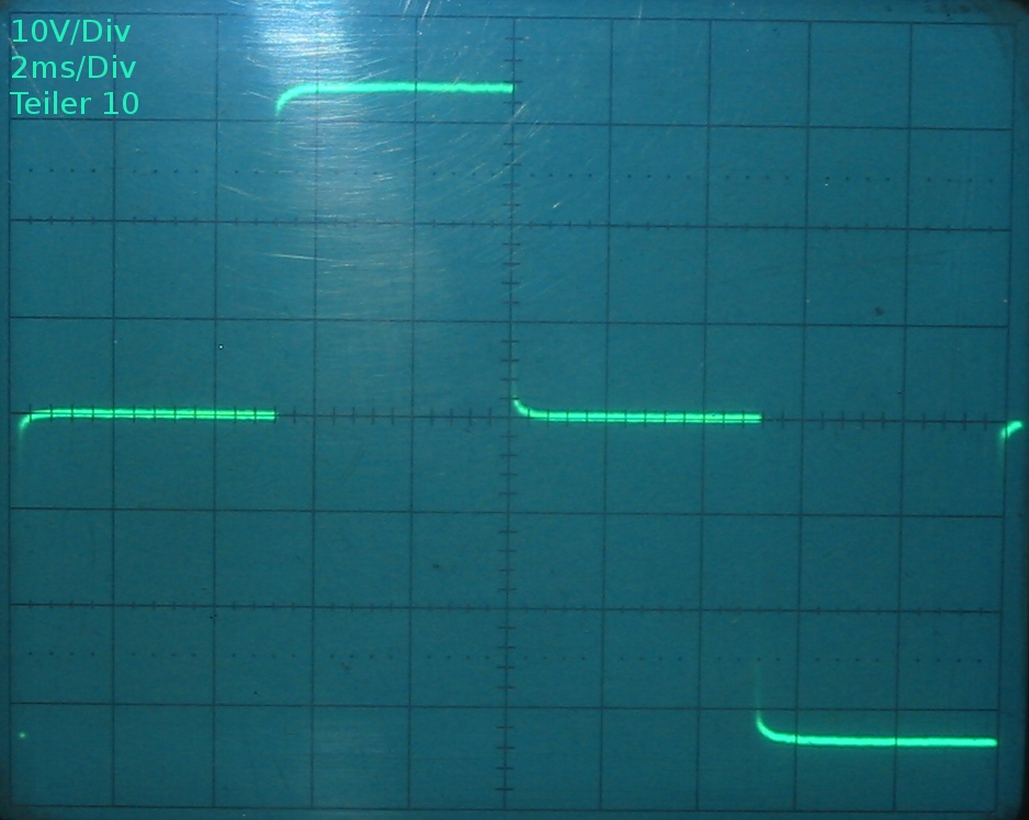 An oscillogram showing the square wave form of the output tension from an inverter. (A inverter inverts direct current onto alternating current.)